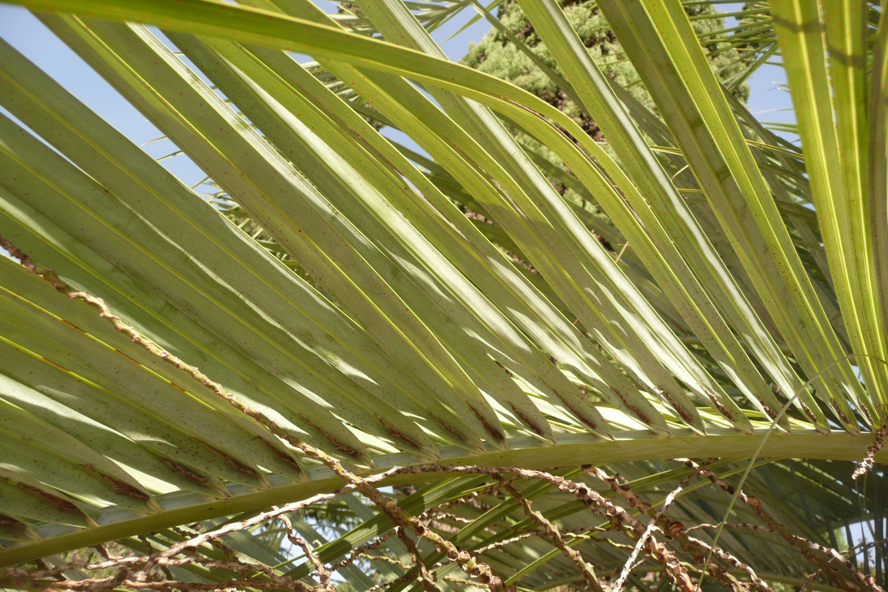 Palm in Fortín Olavarría, Buenos Aires, Argentina.